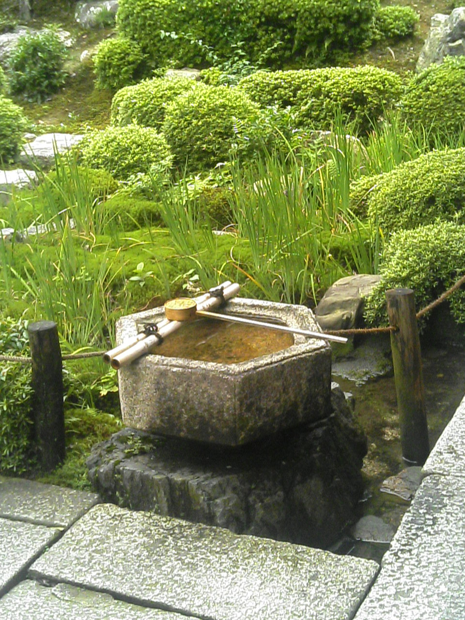 Tsukubai at Tofukuji(Tofuku Temple) Higashiyama Ward, Kyoto City, Kyoto Prefecture Japan